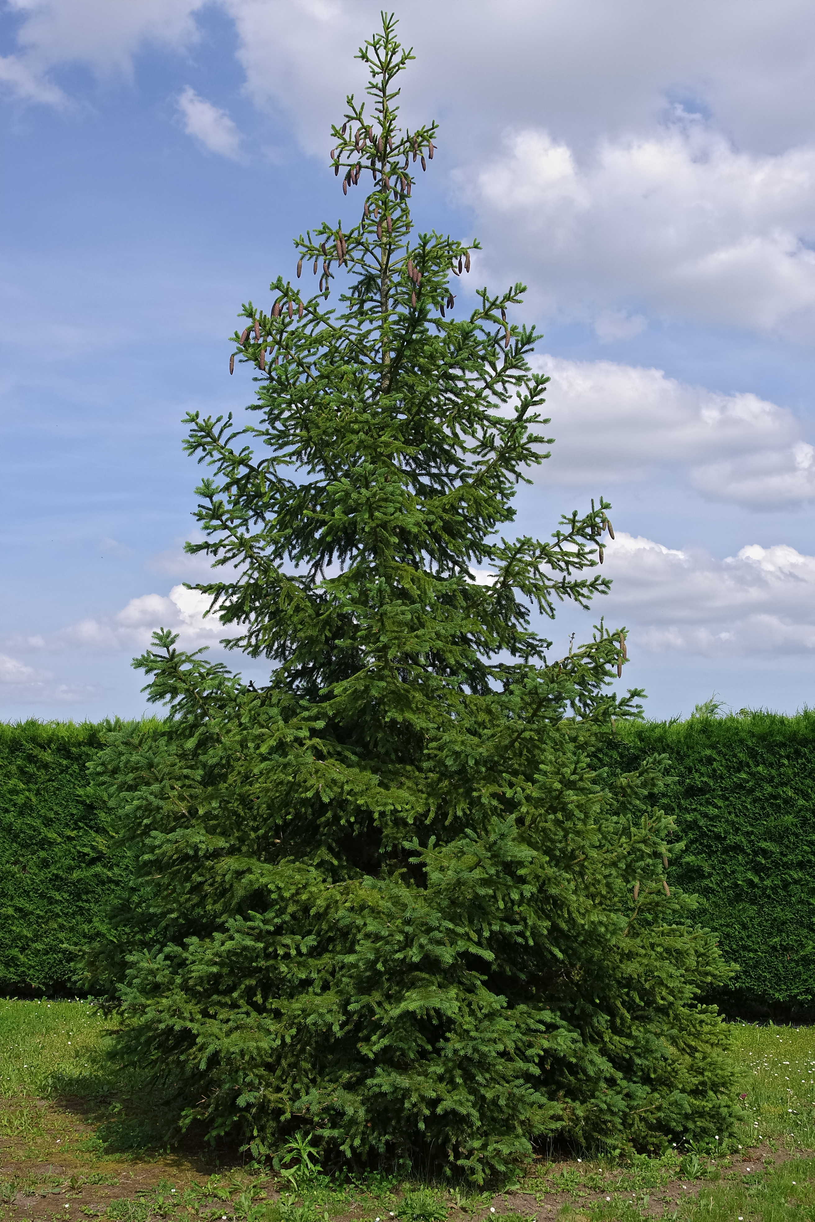 Norway Spruce Picea abies in a garden, Charente, France.